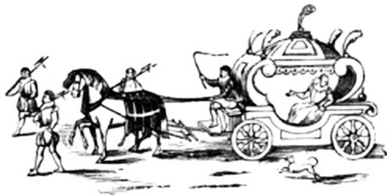 The title is the same as the image caption above & in "Cassell's Illustrated History of England, Volume 2". The number shown is the page number. Follow the image link to the full book vol.2.